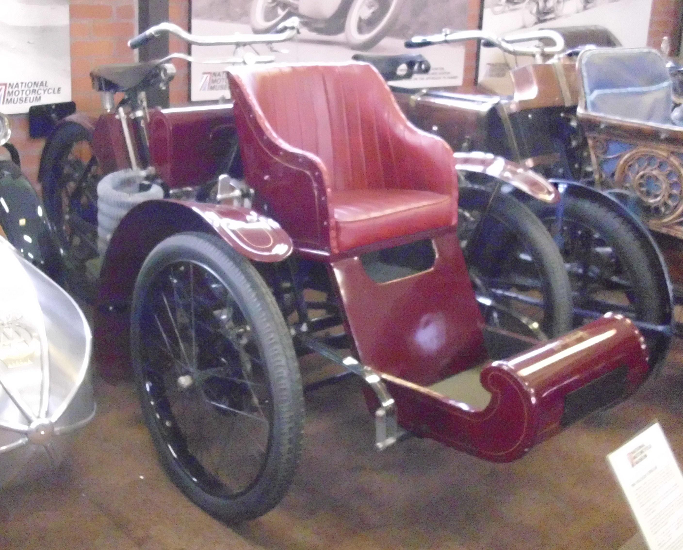 Raleigh Tricar 1904